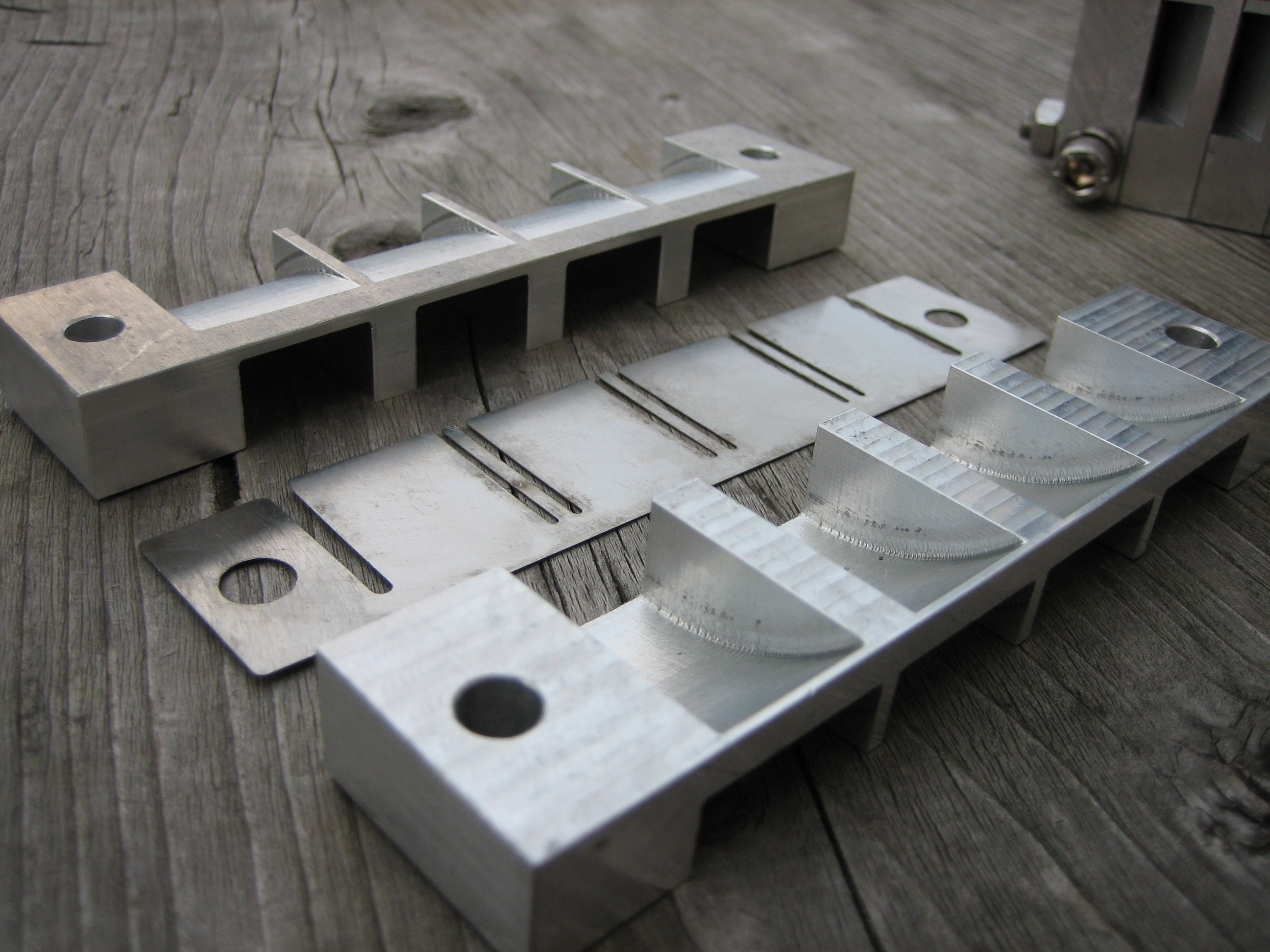 Parts of Pulsjet Valve